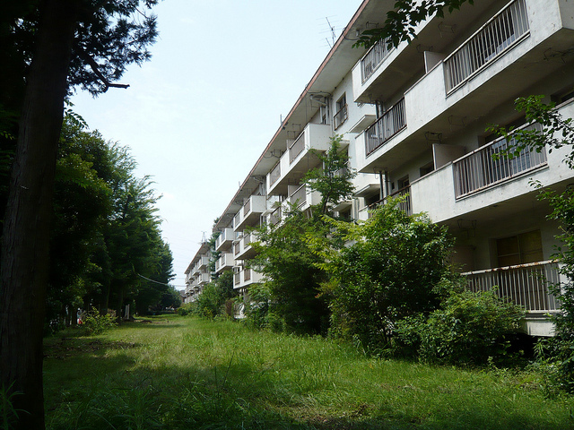 tamadaira_danchi_elevation